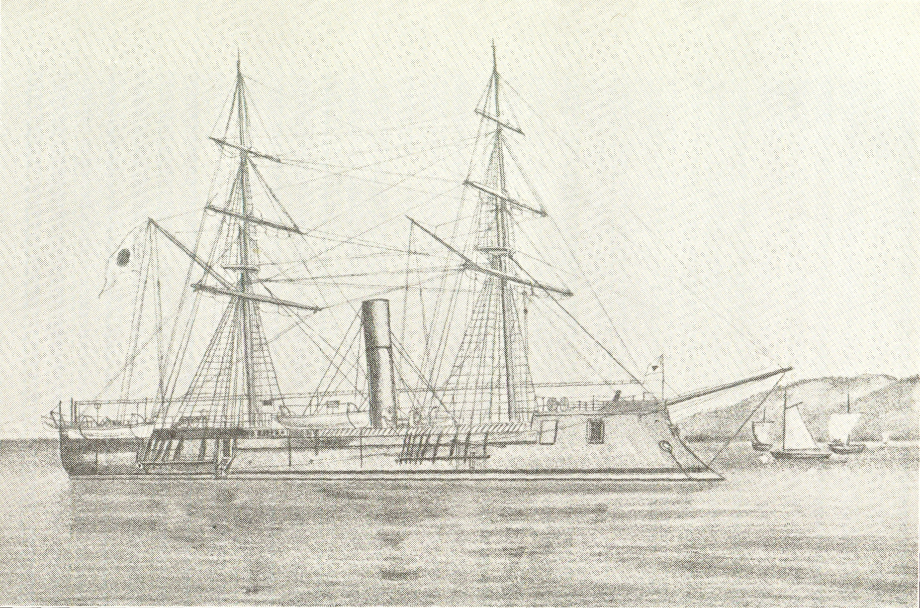 The Japanese ironclad Kotetsu, later renamed Adzuma